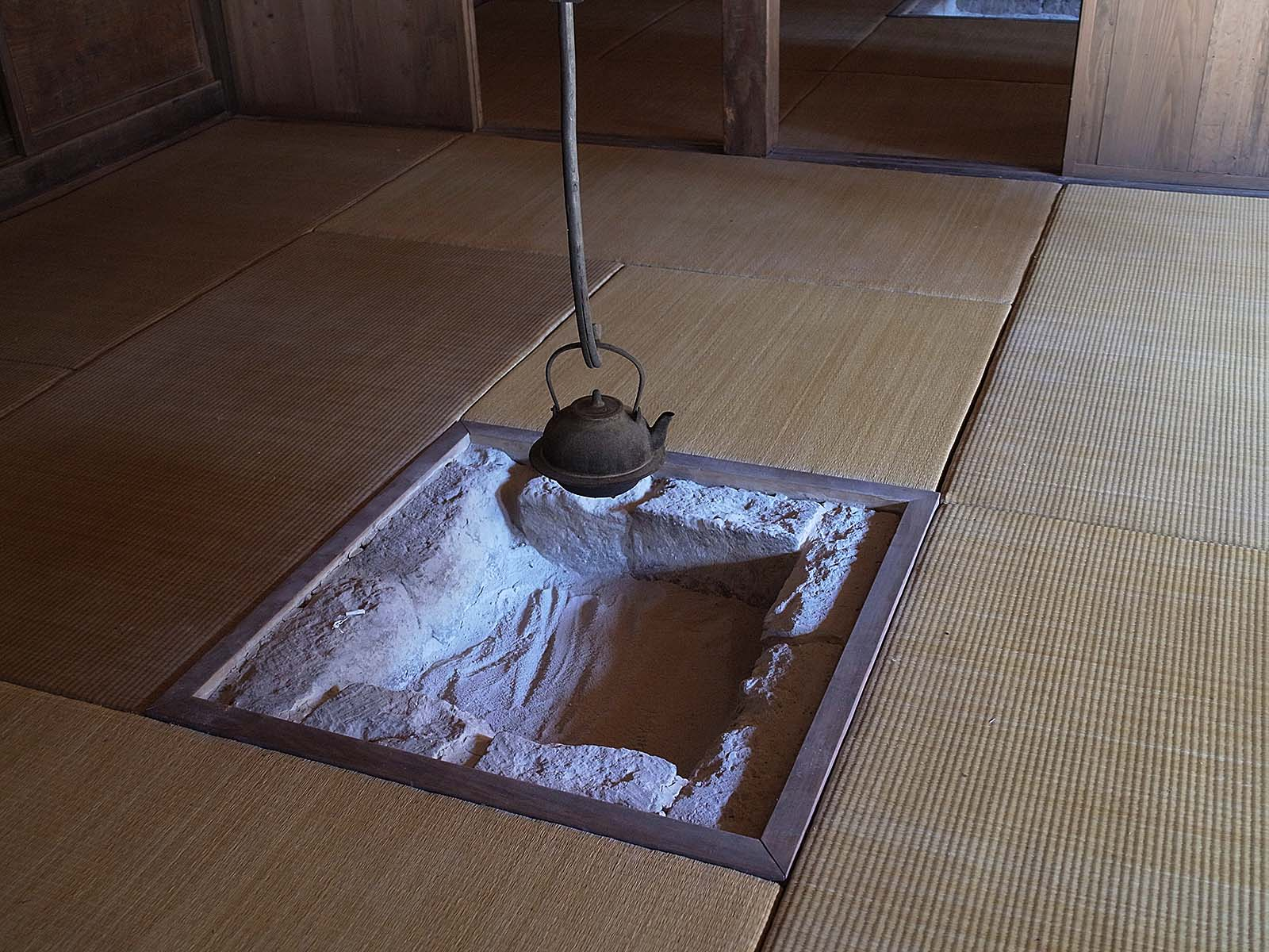 Old Farmhouse , 民家園